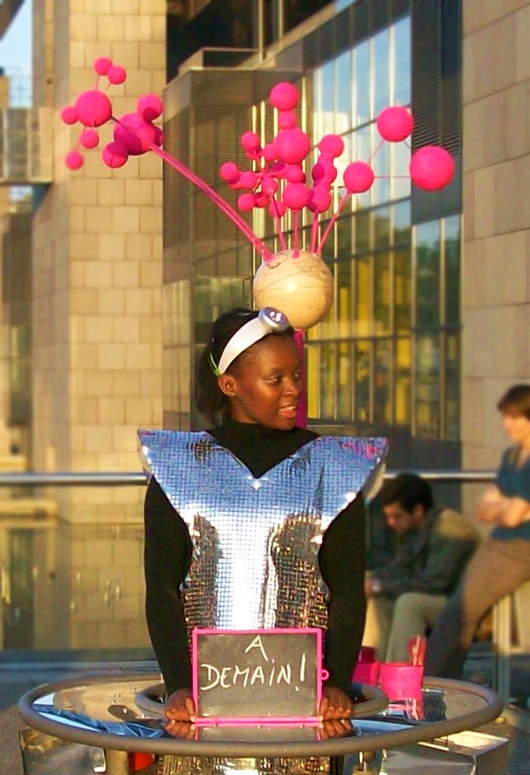 Hostess at the entrance/exit of the Cite des Sciences in Paris.